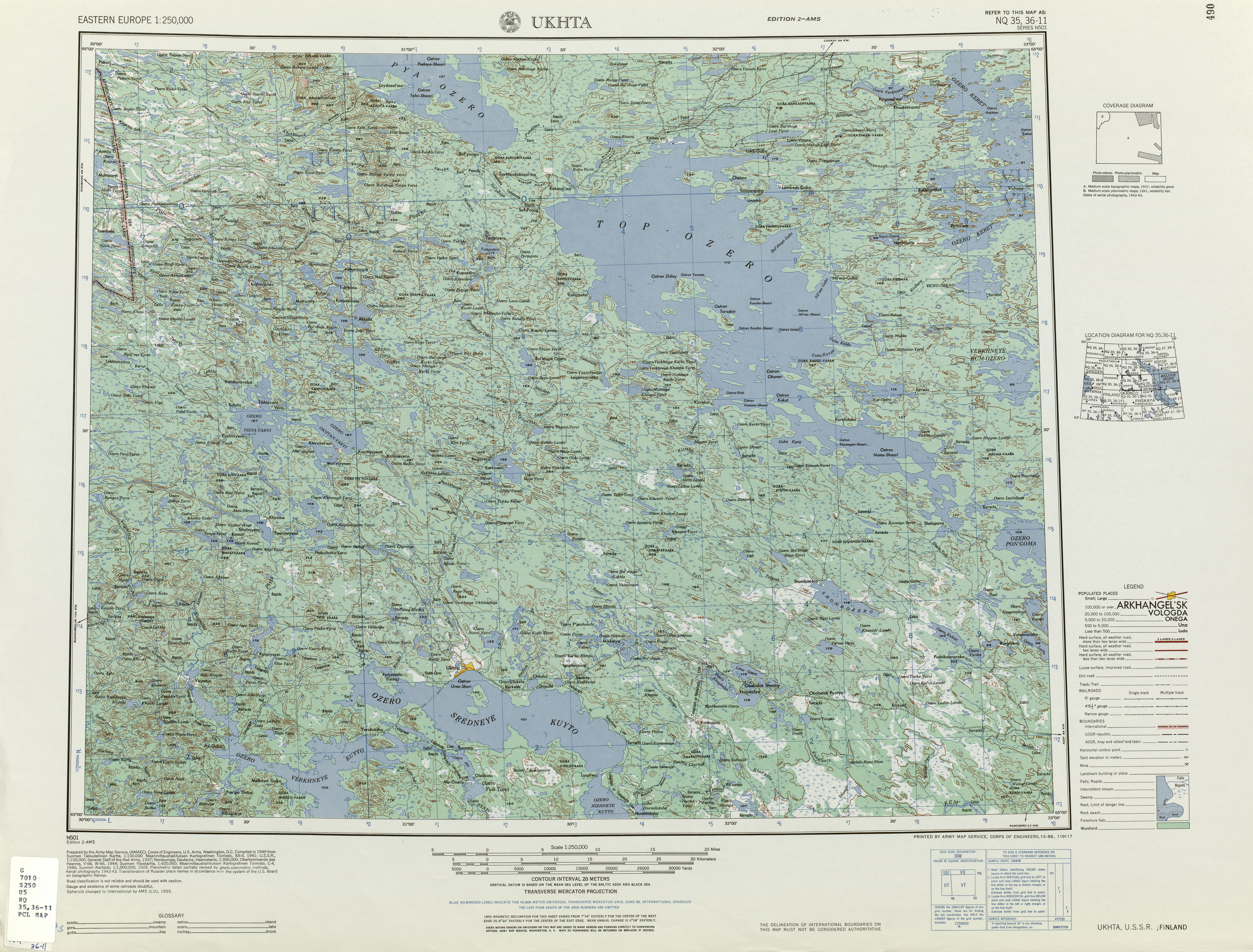 List from Eastern Europe AMS Topographic Maps. Series N501, U.S. Army Map Service, 1954